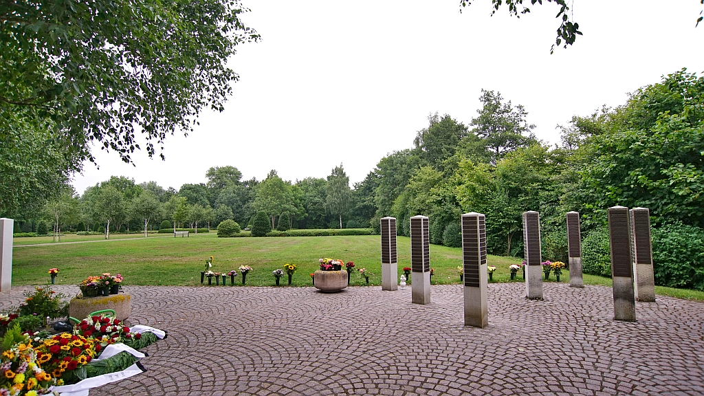 Name stelae of deceased persons at a collective grave, Moordeich Cemetery, Stuhr, Germany